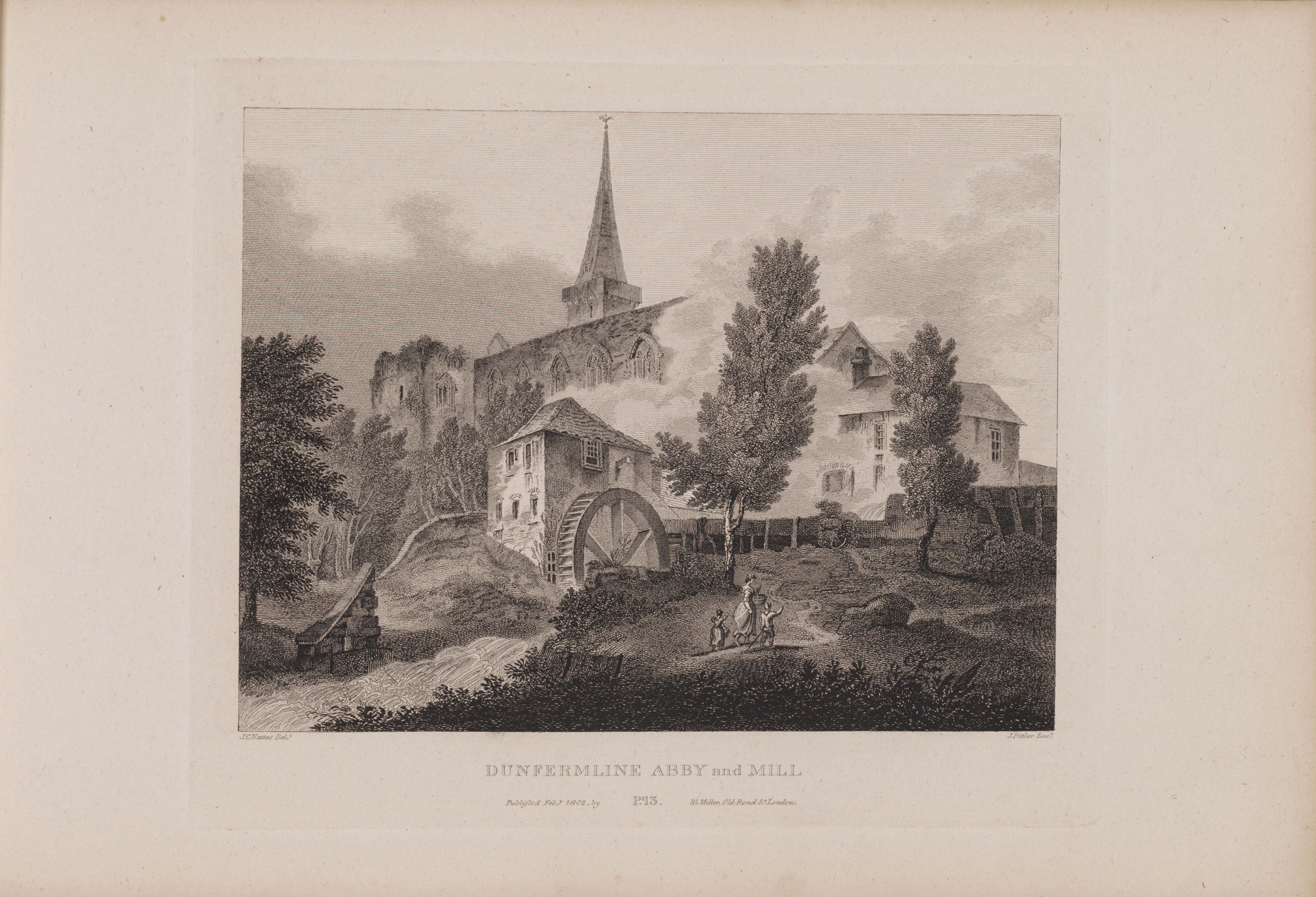 Plate XIII/b - John Claude Nattes made drawings of suitable scenes on the spot; etchings are by James Fittler. - John Claude Nattes made drawings of suitable scenes on the spot; etchings are by James Fittler.